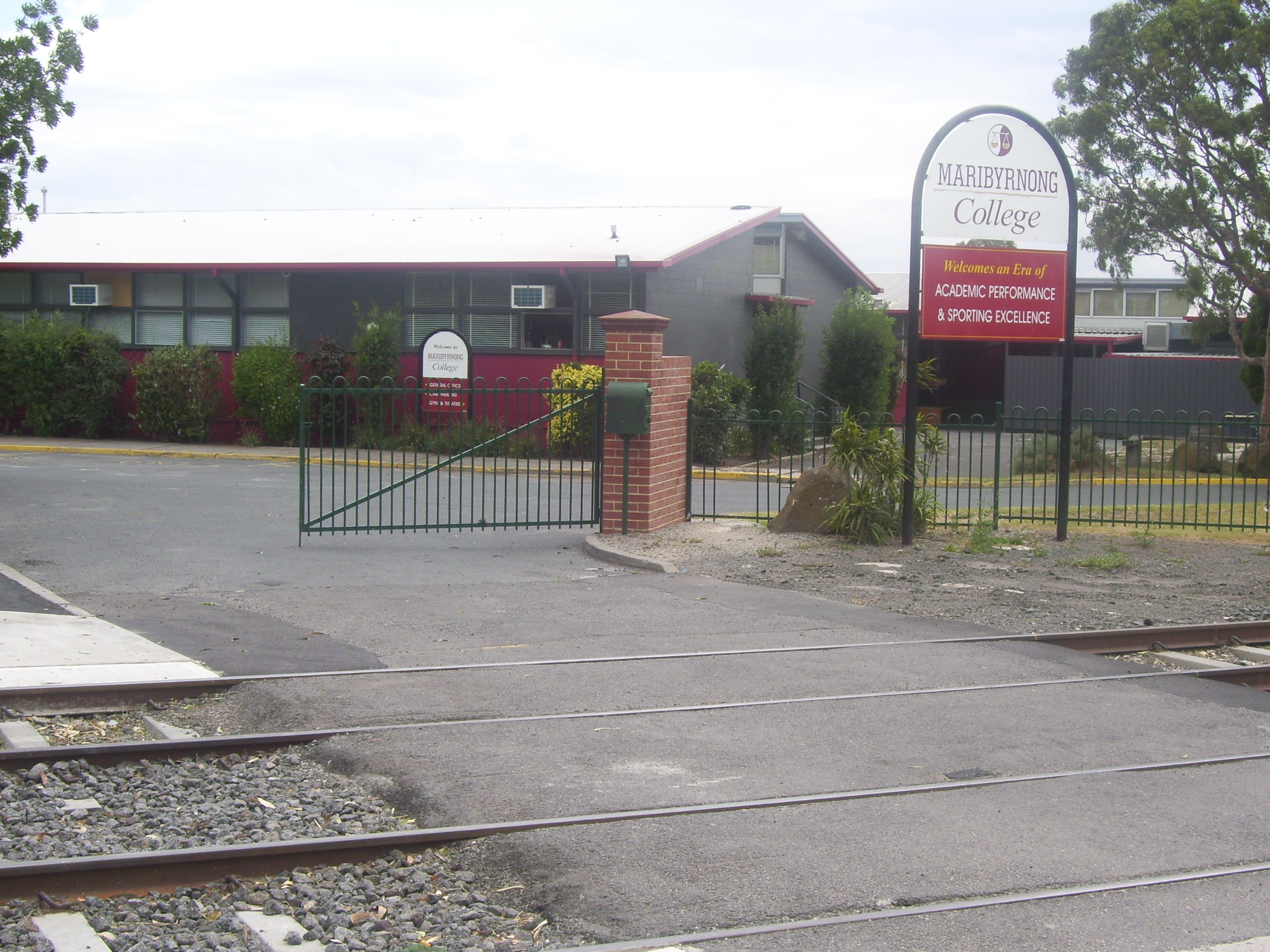 Maribyrnong College, Maribyrnong, Victoria, Australia